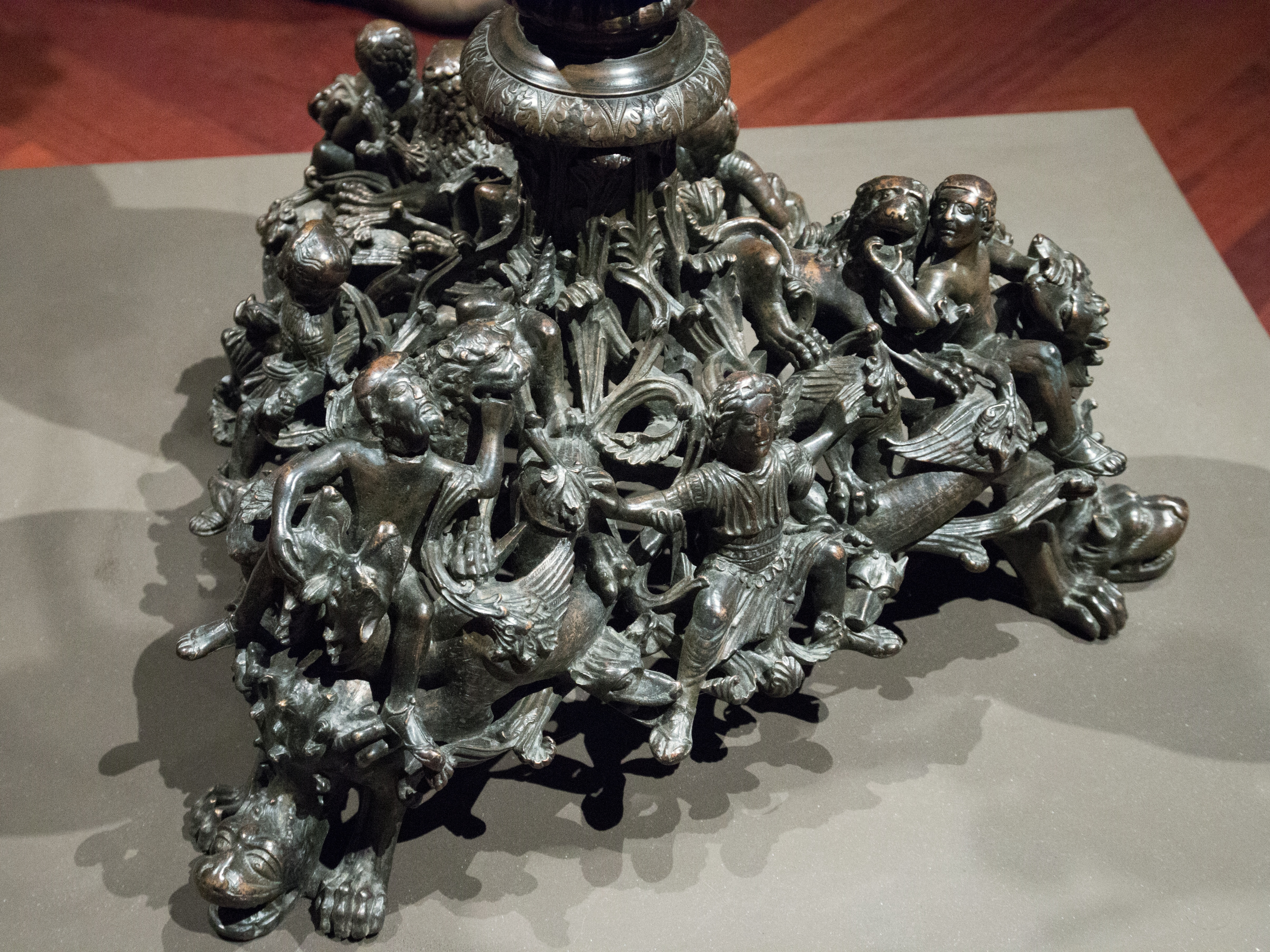 The "Milan or Jerusalem Candelabrum". Leg: Meuse region, around 1150, bronze. Prague, St. Vitus Cathedral, chapel of St. John the Baptist (chapel of St. Anthony). Candelabrum was part of the spoils of Vladislav from Milan year 1162.